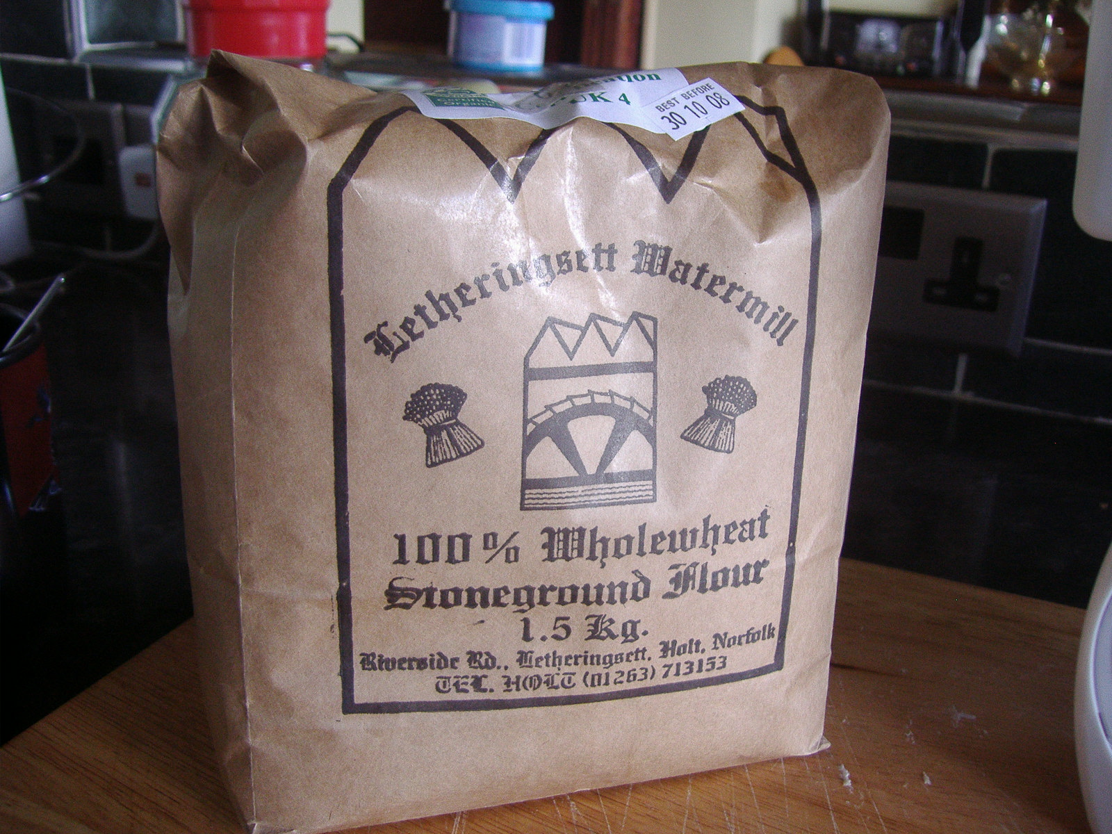 A digital photograph of a bag of flour from Letheringsett watermill taken on the 12th April 2008 by Stavros1 (talk) 19:31, 12 April 2008 (UTC)